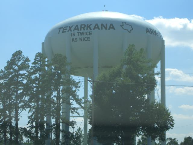 Water Tower in Texarkana, Texas.